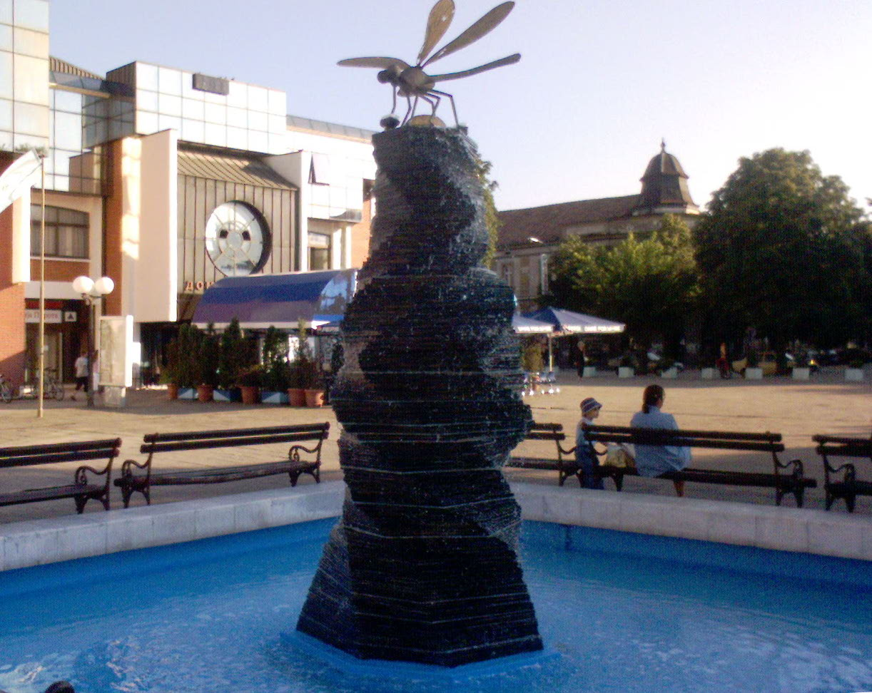 Fountain in the center of , Serbia/Fontaine au centre ville de , Serbie